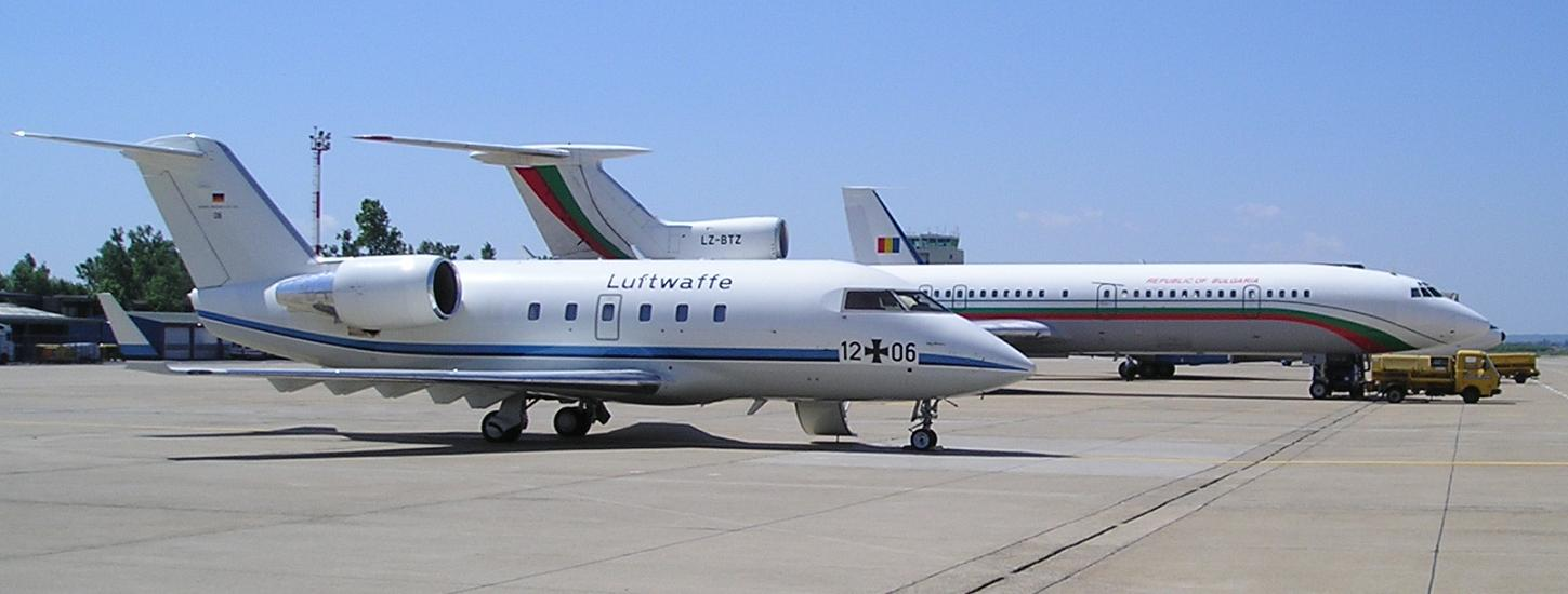 Bombardier Challenger,Luftwaffe at Zagreb airport